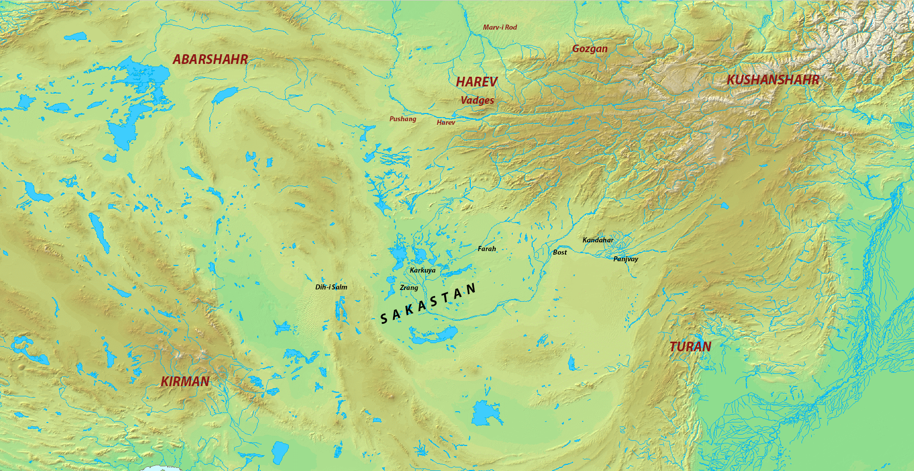 Map of Sakastan and its surroundings during the Sasanian era. Map taken from DEMIS Mapserver, which is public domain, the rest is self-made.